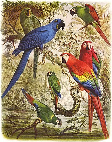 Macaws (Glaucous, Hyacinthine, Sever, - Scarlet Macaw, Green-winged Macaw, Illger's, and Golden-naped.) From Dr Anton Reichenow (1847 - 1941) work 'Vogelbilder aus fernen Zonen' Illustrated by Gustav Mützel (1839-1893).